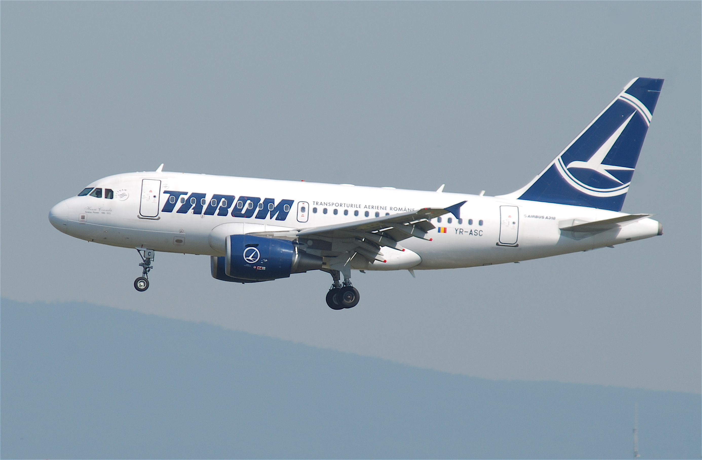 TAROM Airbus A318-111; YR-ASC@FRA;06.07.2011/603fq